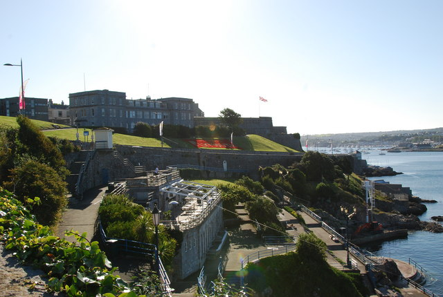 The old Aquarium building ( centre left) now the Marine Scientific study centre